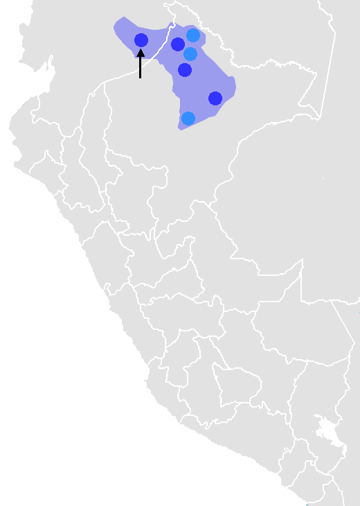 Location of Iquito language. Source see: File:Zaparoan languages.png